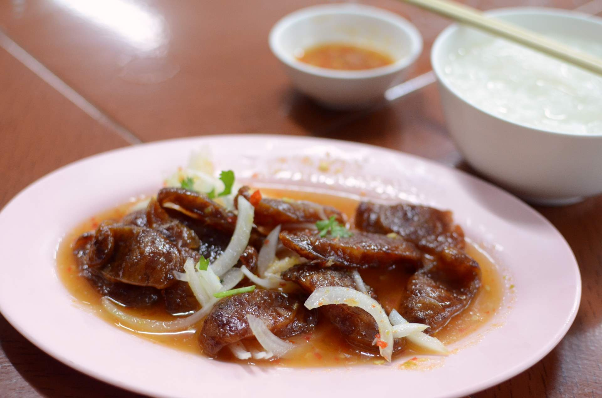 Yam kun chiang (Thai script: ยำกุนเชียง) is a Thai salad made with a dried pork sausage called kun chiang. This sausage is of Chinese origin and is called kwan chiang in the Min Nan dialects, or la chang (Chinese script: 臘腸) in Standard Chinese. This dish is often eaten with plain rice congee (khao tom kui; Thai script: ข้าวต้มกุ๊ย).